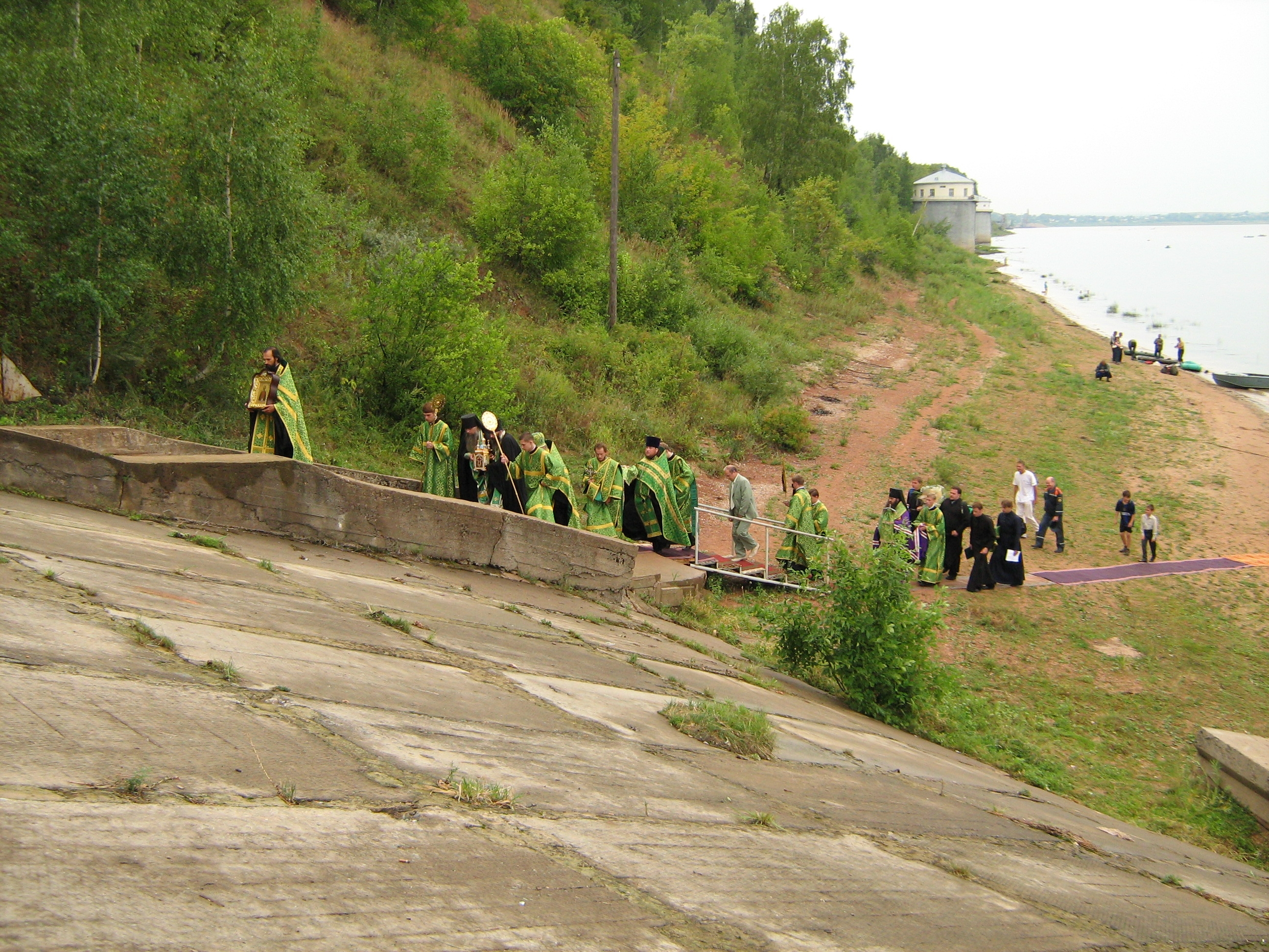 The Honorable Head of Venerable Macarius gets red-carpet treatment at the Kstovo Volga ferry dock. (During the relic's transfer from Nizhny Novgorod's Pechersky Monastery to Makaryev Monastery)